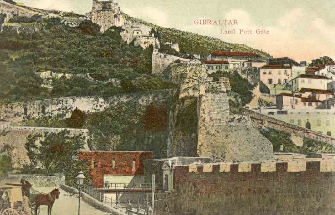 Old postcard of Gibraltar depicting Landport Gate and the Moorish Castle.